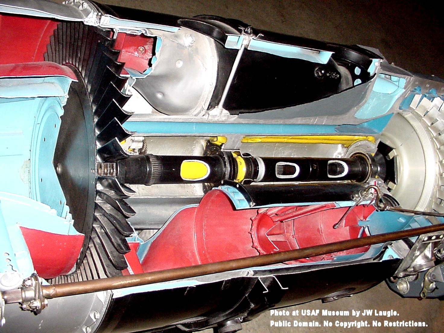 Junkers Jumo 004 cutaway with turbine rotor, main shaft and combustion chamber.